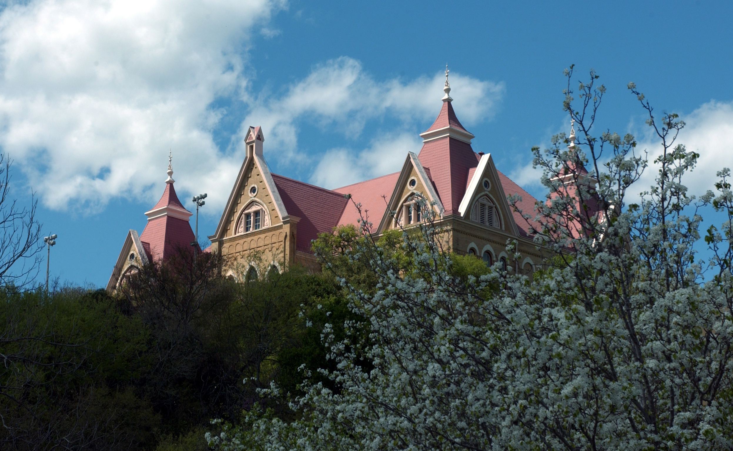 Texas State University-San Marcos.